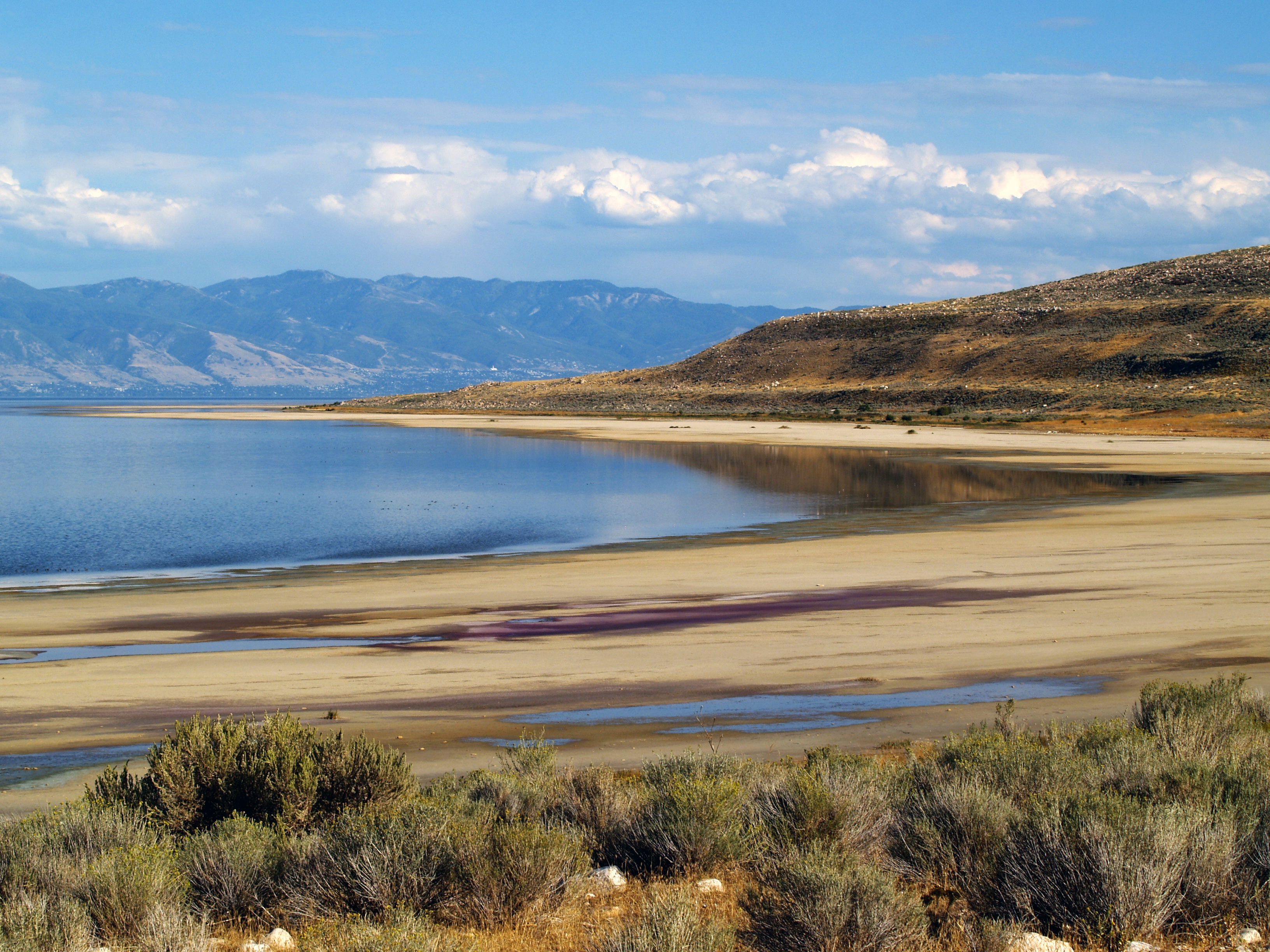 Great Salt Lake in Utah, USA.